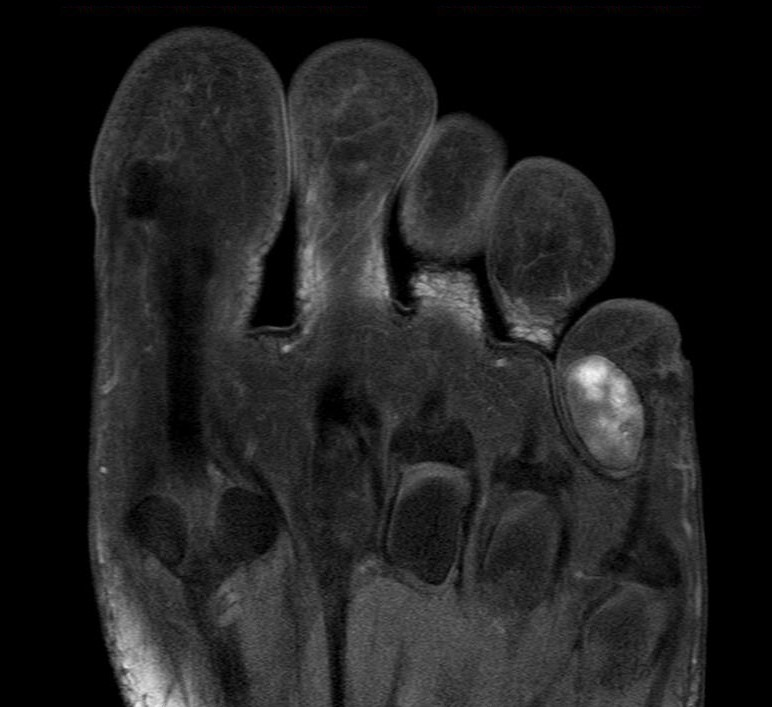 A Magnetic Resonance Imaging (MRI) scan of a Chondroma of Soft Parts (Extraskeletal Chondroma) located in the left little toe. Seen from underneath.